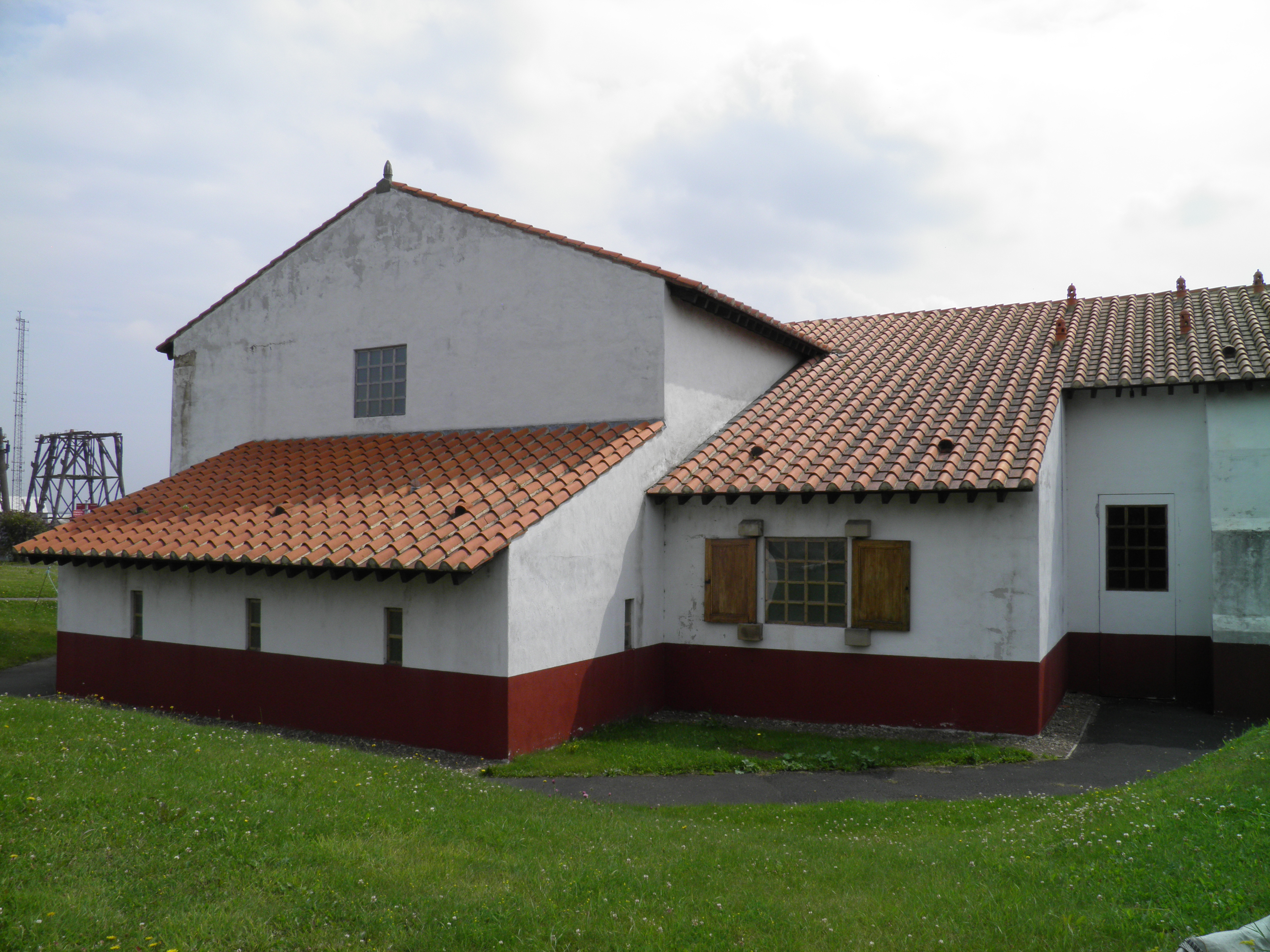 The replica Roman bath house at Segedunum fort in Wallsend